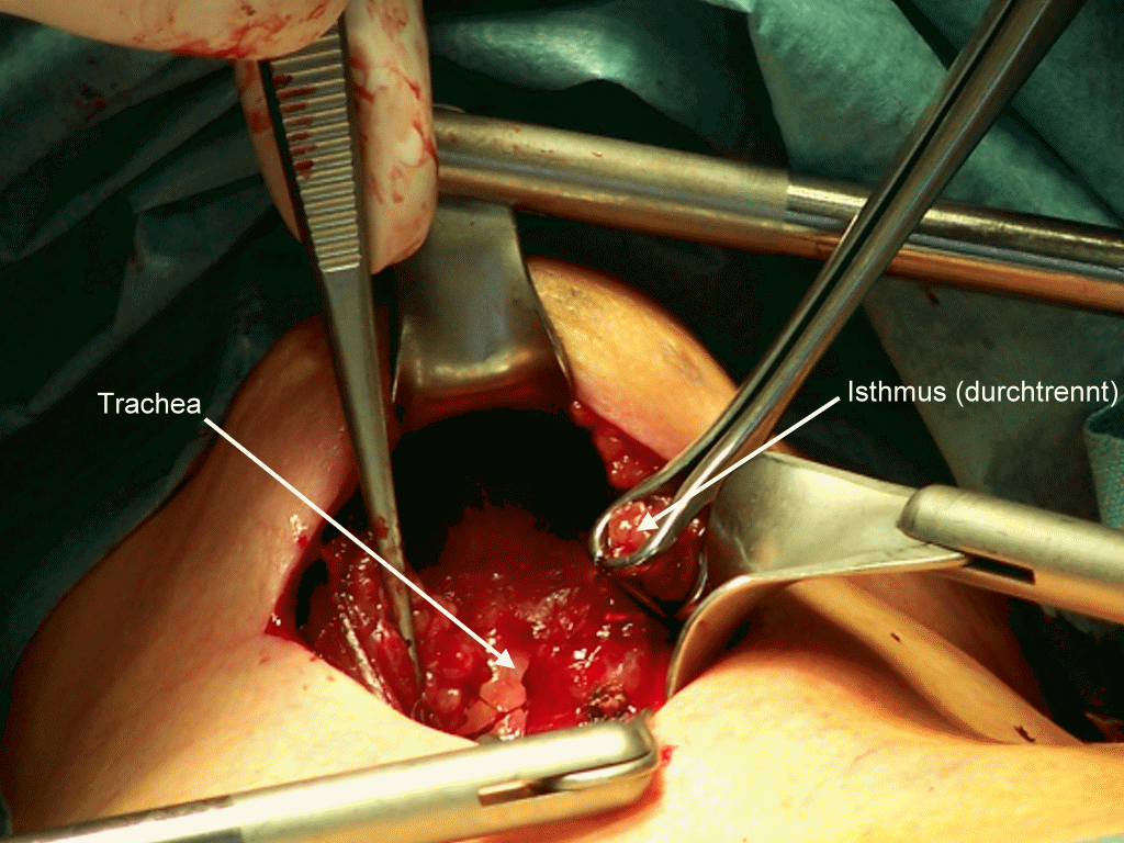 Strumaresektion, OP-Photo